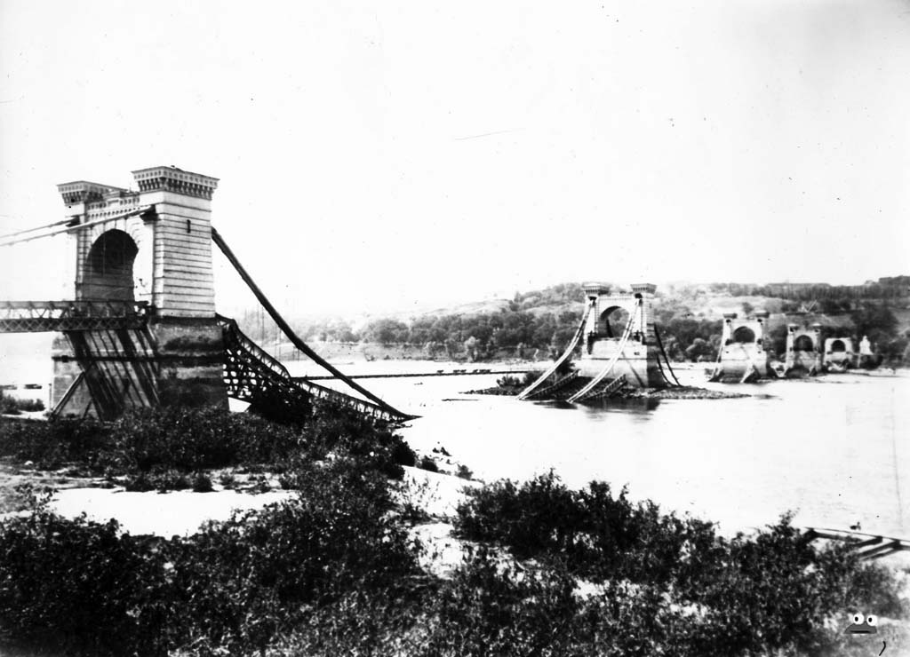 =Nikolas Chain Bridge of the Bridges of Kiev. Photo taken in 1920s.